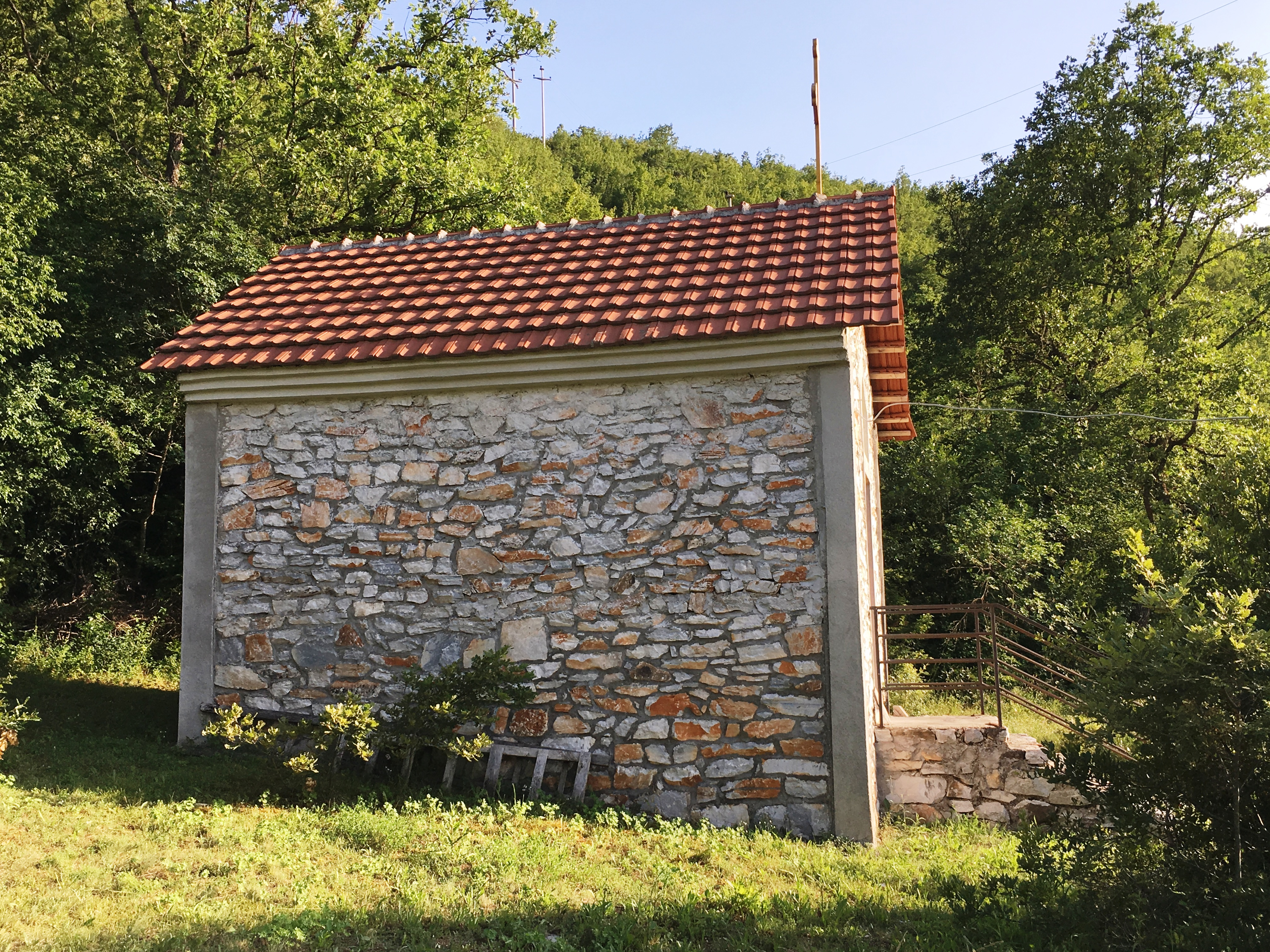 Church in the village of Dragov Dol